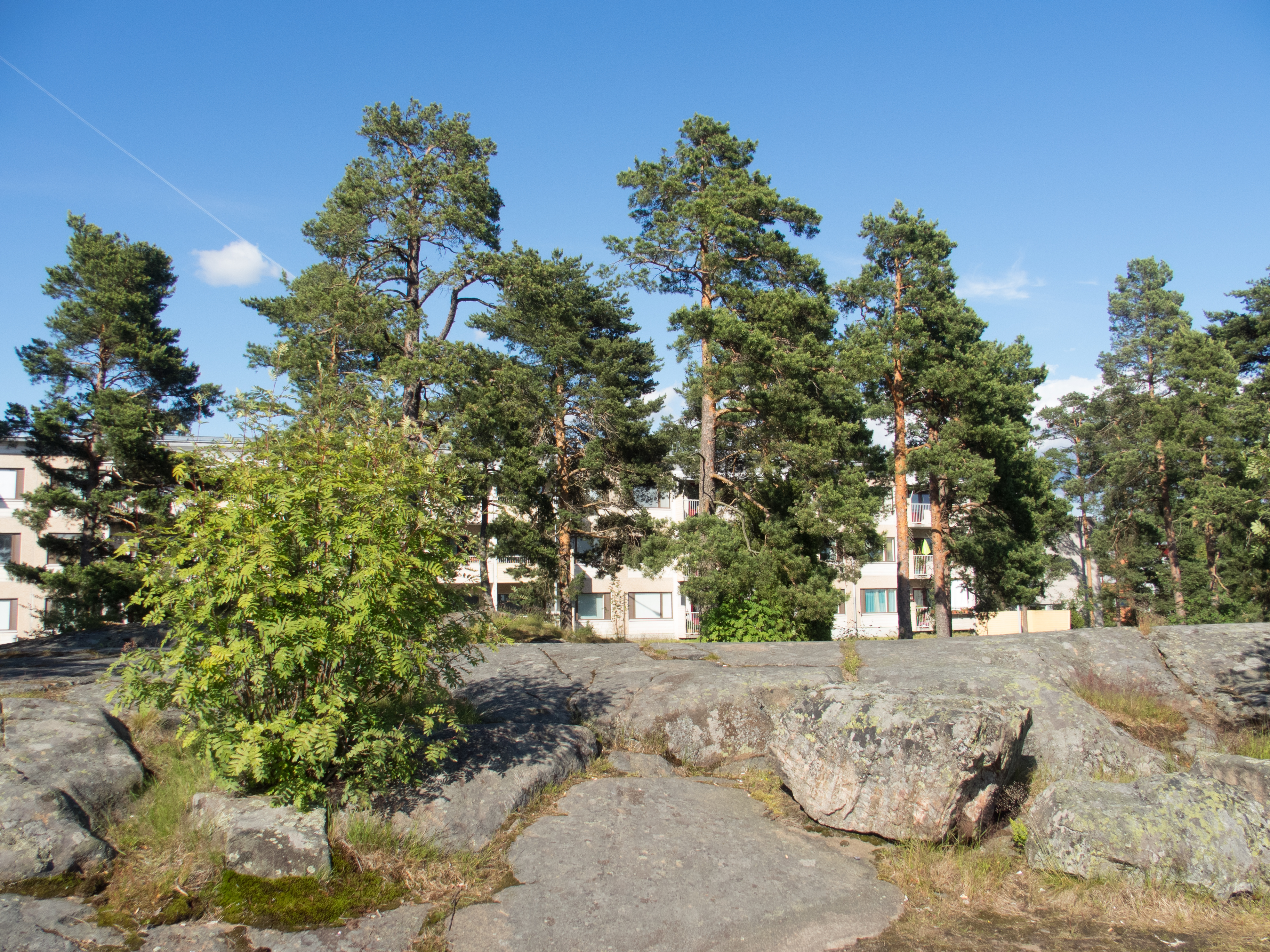 View towards Ruona suburb from the cliff overlooking Naantali Spa and Naantali's old city in the opposite direction.